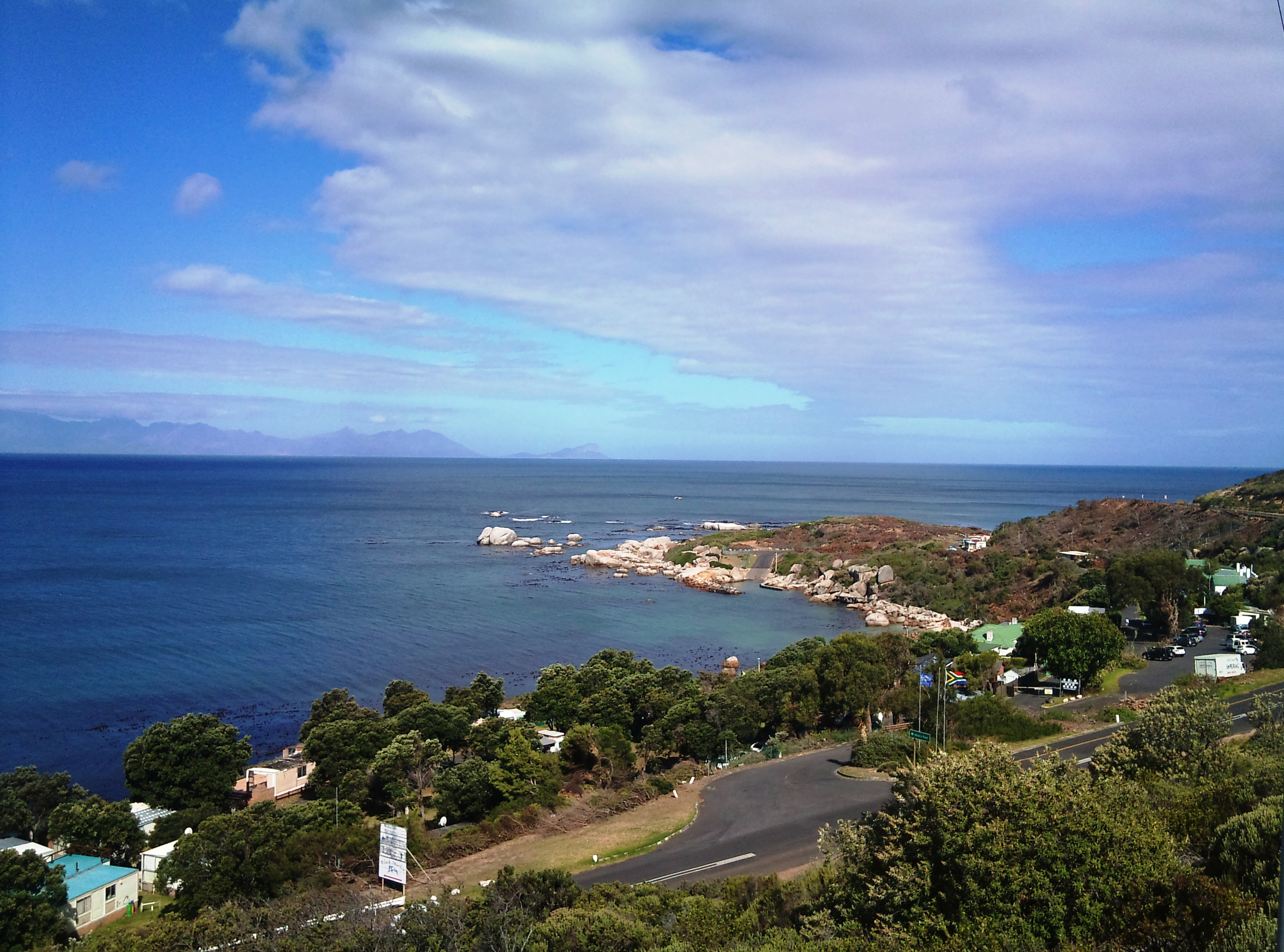 Millers Point. View of restaurant, park and fishing site. Cape Peninsula.